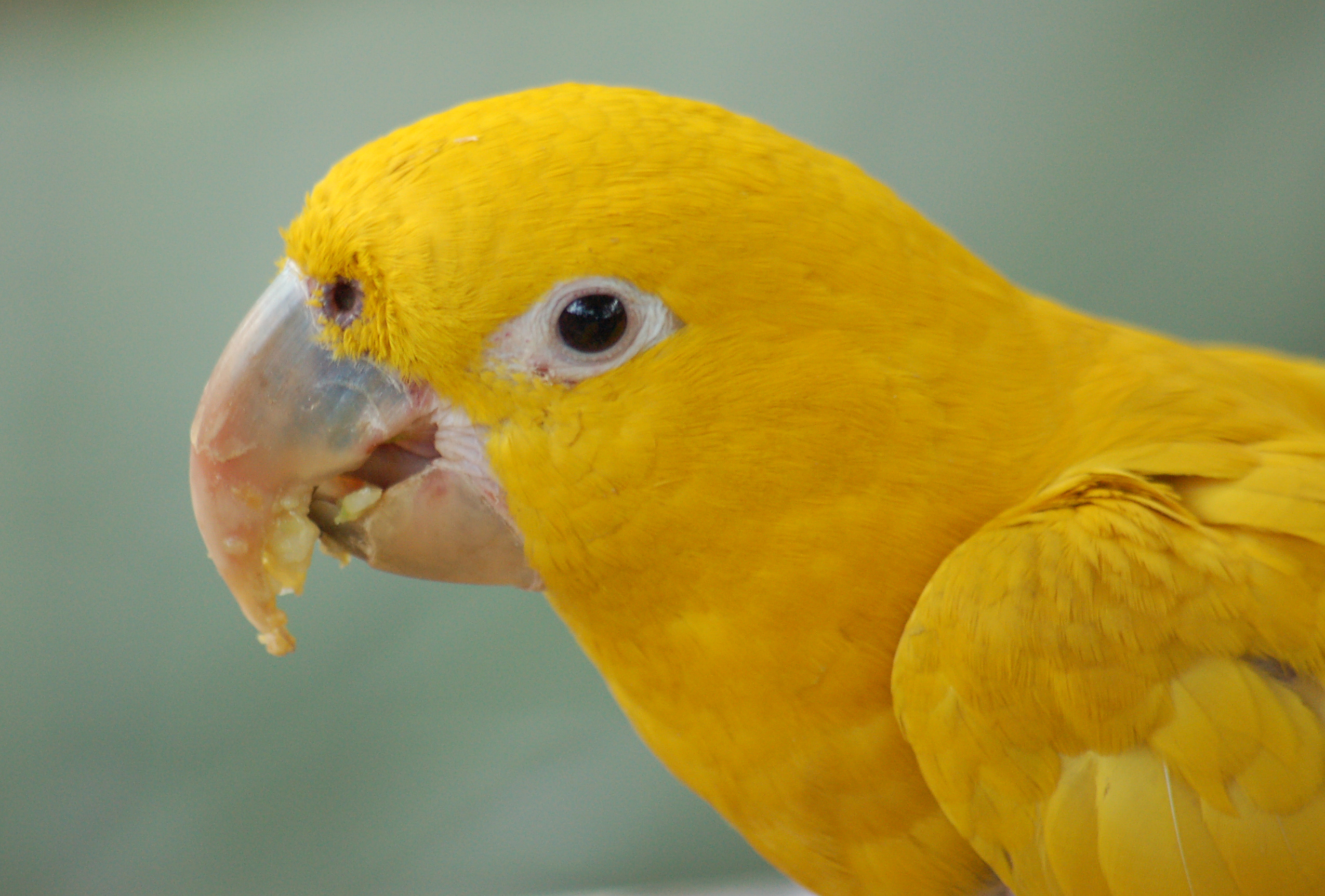 A photograph of a Golden Conureen (Guaruba guarouba en ). Photo taken at the National Aviary.